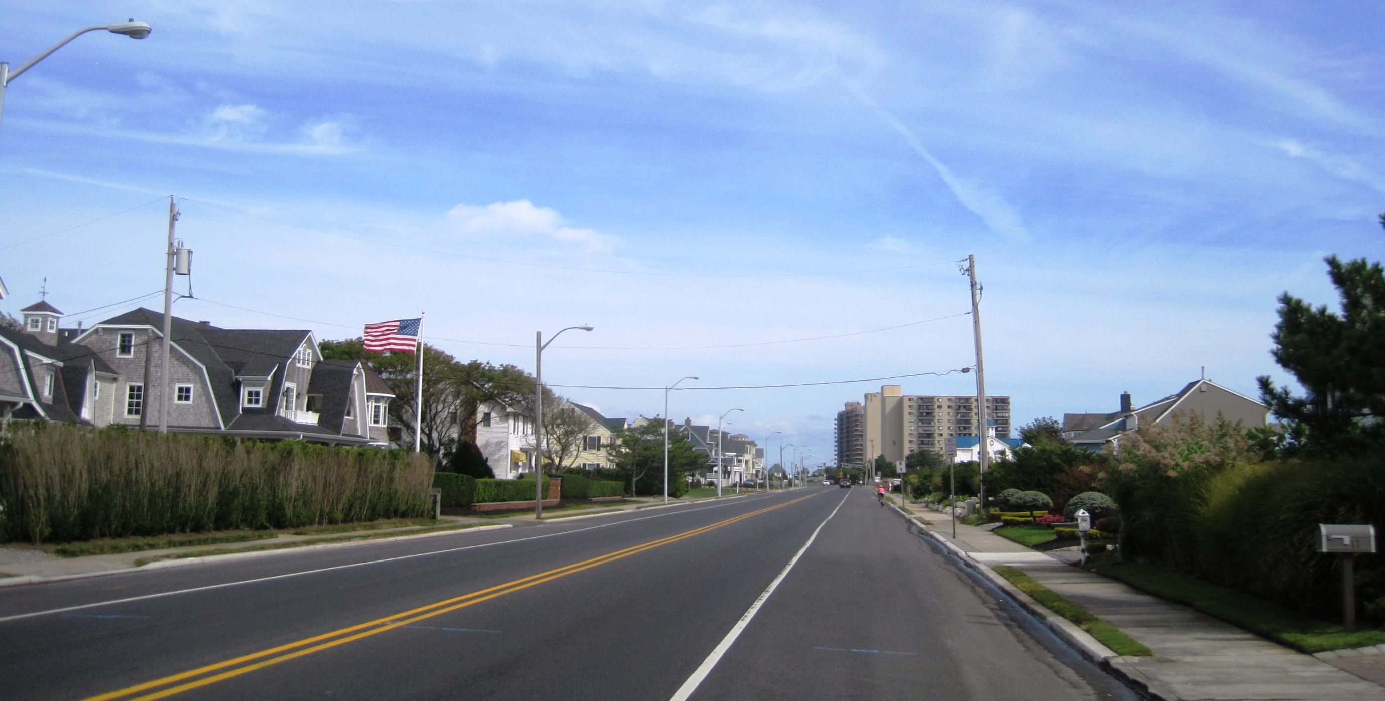 Photo showing a part of Monmouth Beach, New Jersey. Photo taken along northbound New Jersey Route 36 between Riverdale Avenue and Vista Place.